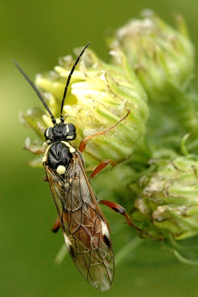 Tenthredopsis litterata from Commanster, Belgian High Ardennes .